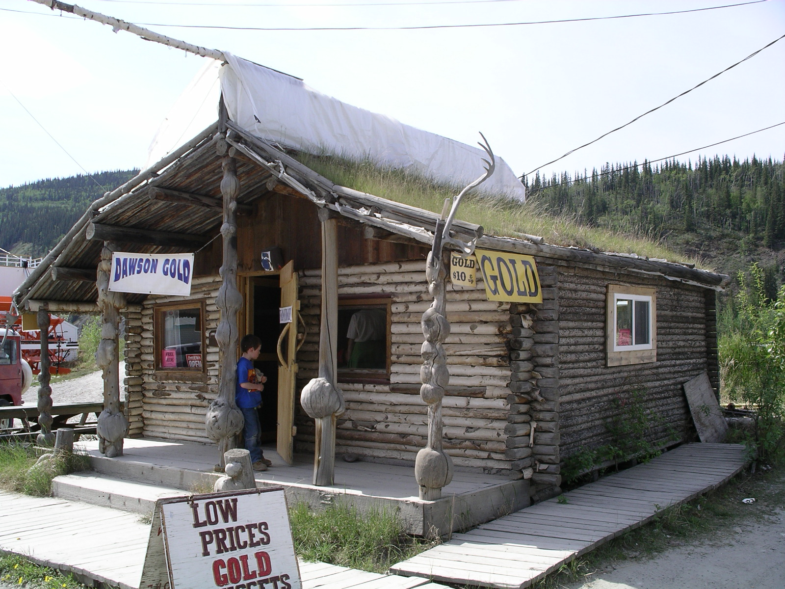 Buy gold here!